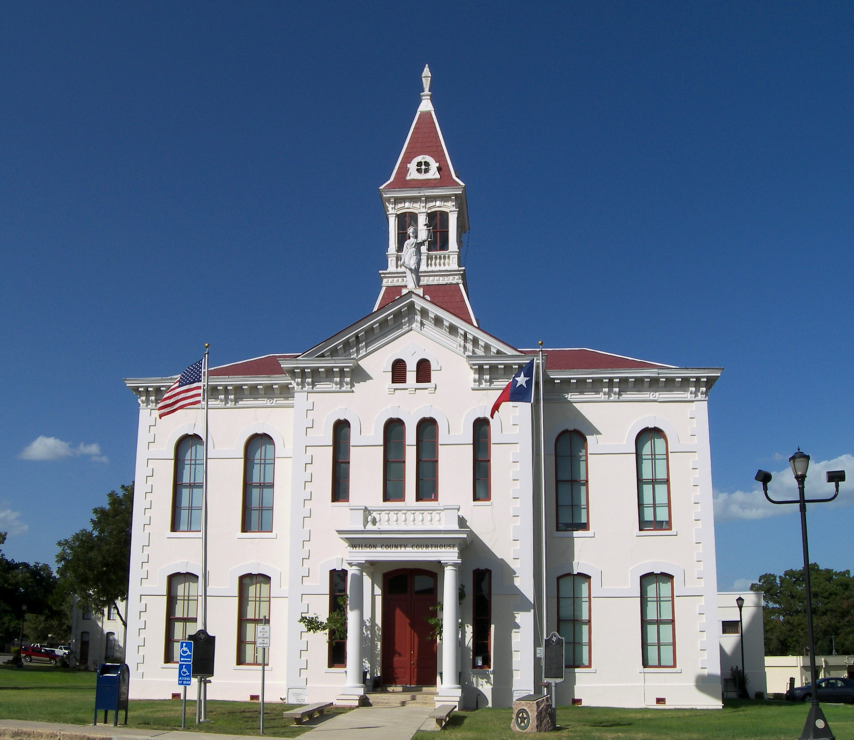 The Wilson County, Texas courthouse, Floresville, Texas, United States. The courthouse was listed on the National Register of Historic Places on May 5, 1978 and designated a Recorded Texas Historic Landmark in 1984.